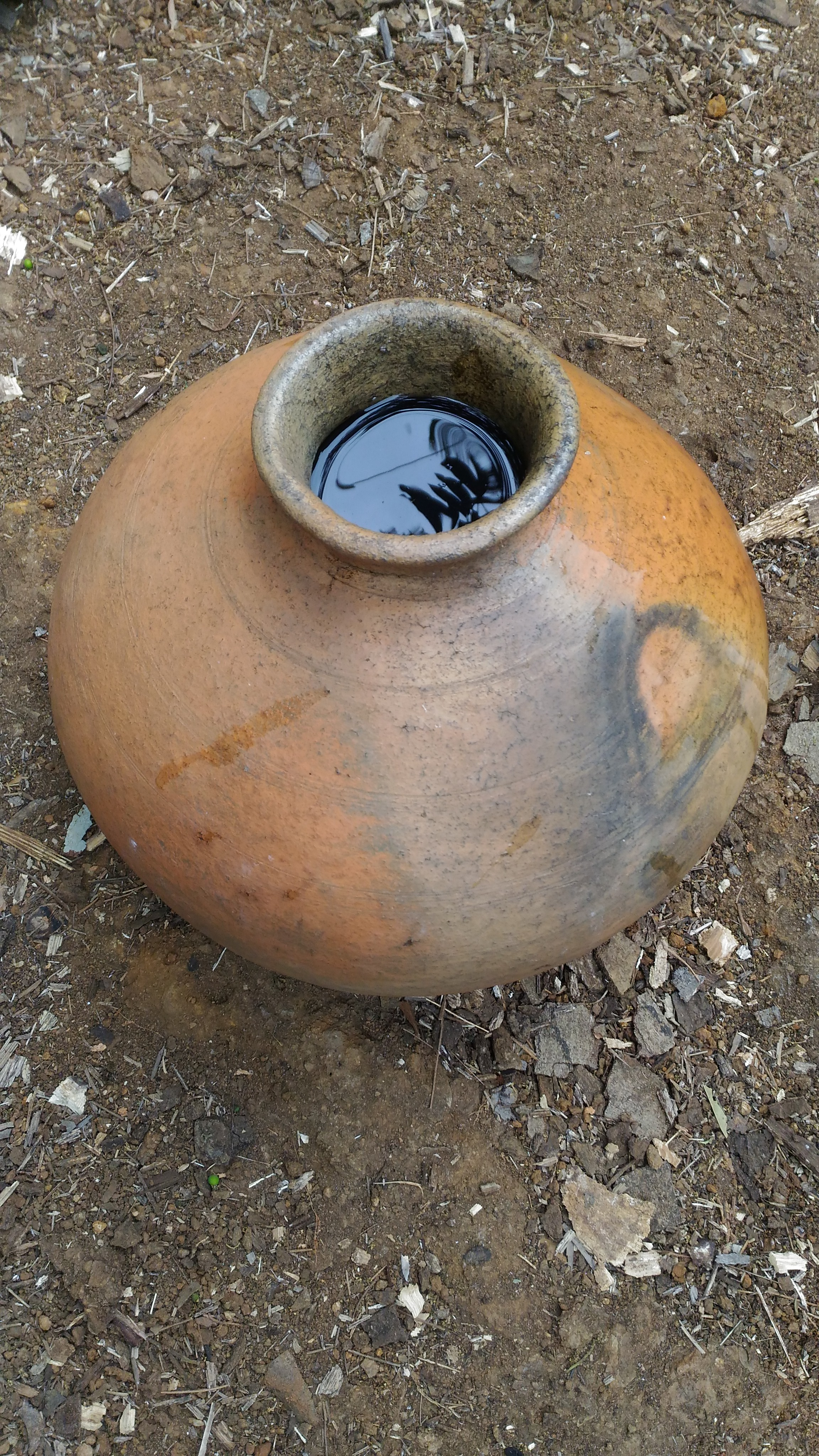 A mud pitcher (Kudam) filled with water